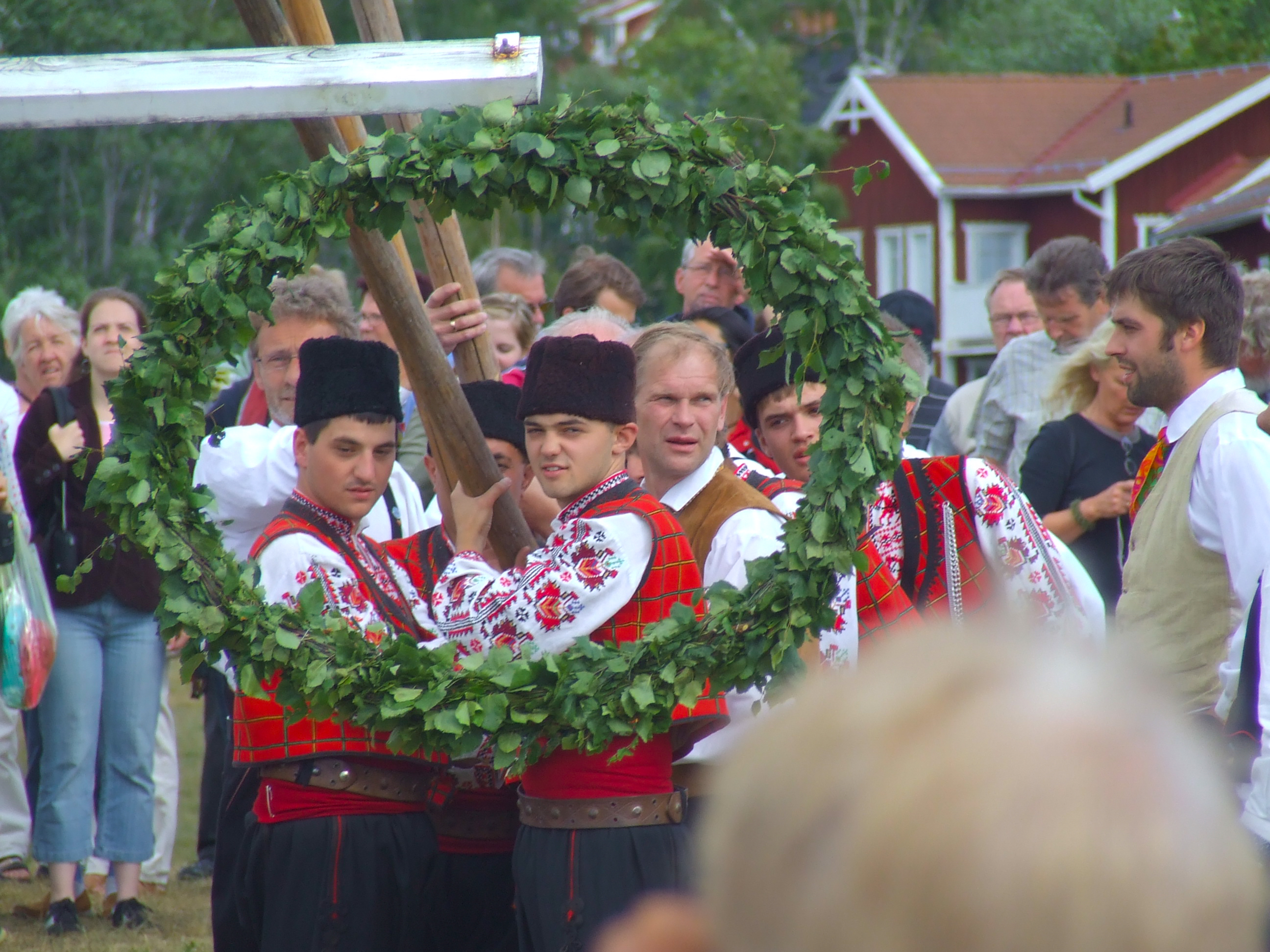 Maypole erection in Dalarna